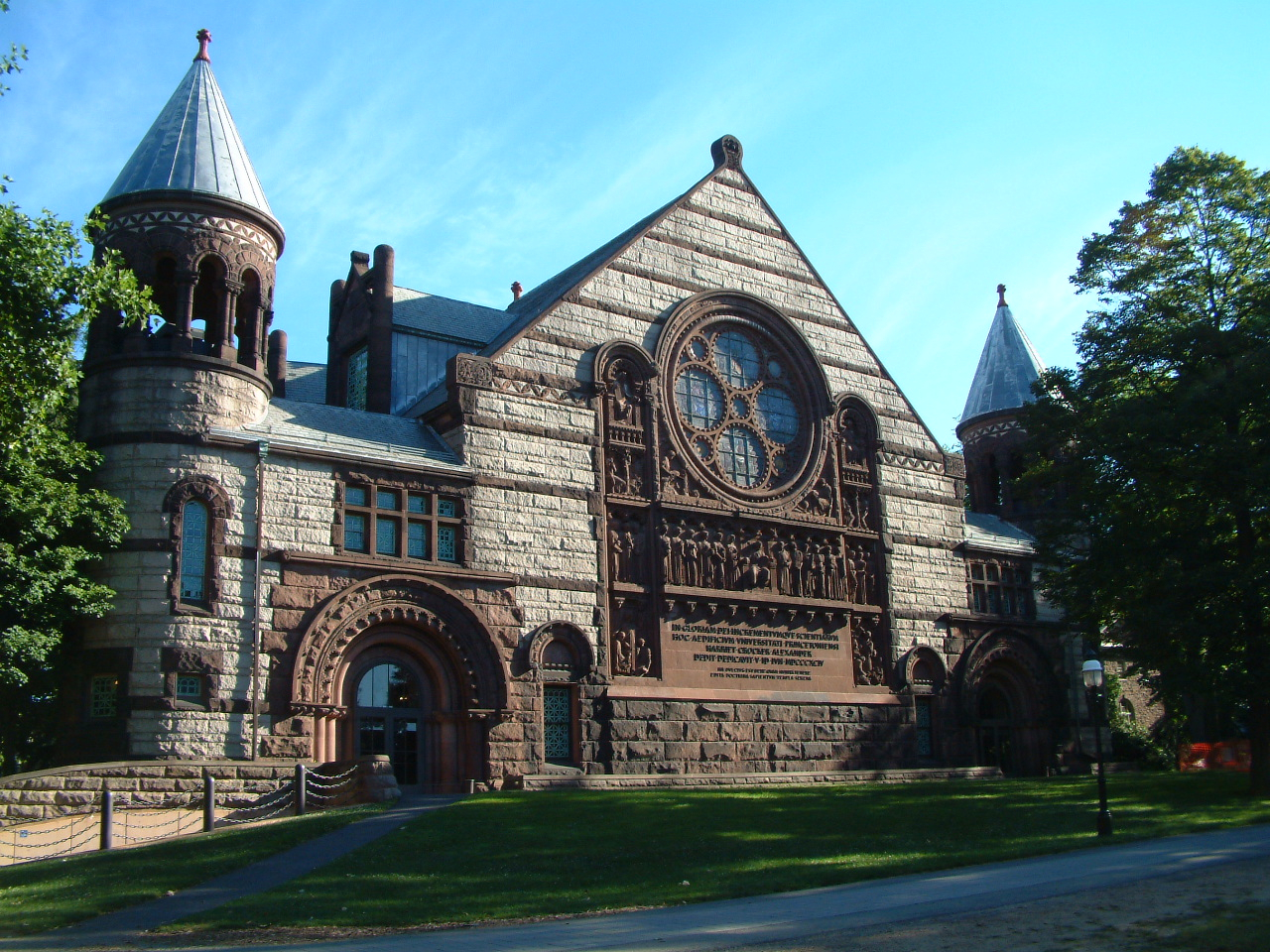 Princeton University Alexander